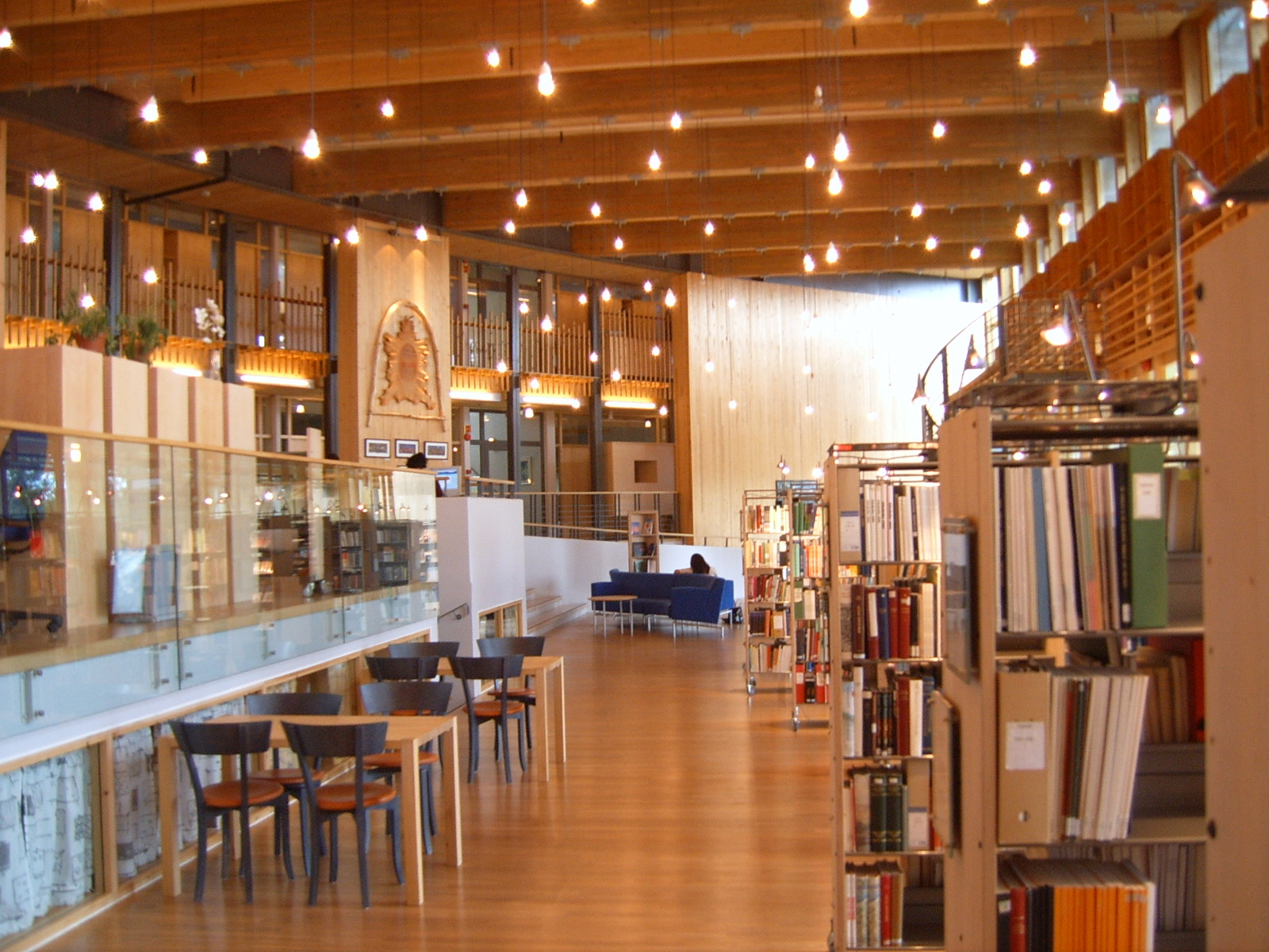 The library in the Norwegian Sami parliament, samediggi, in Karasjok.